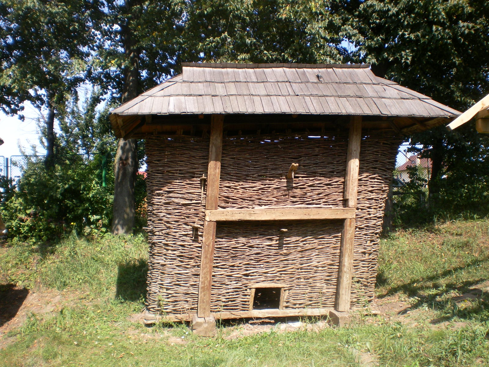 Bukovina Village Museum - Traditional corn shelter from Sfântu Ilie.